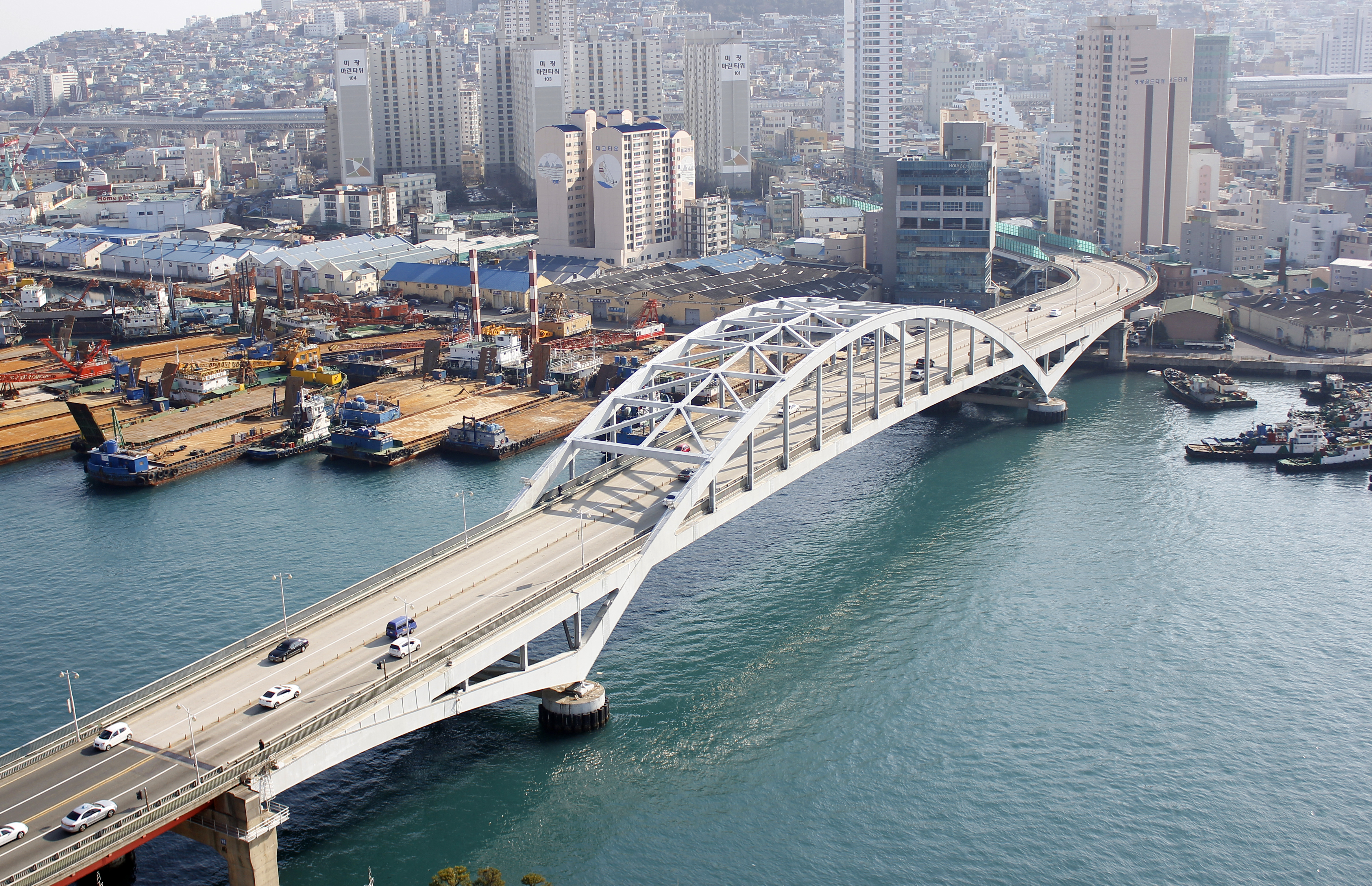 Busandaegyo